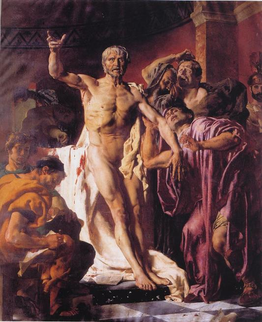 Joseph-Noël Sylvestre: Seneca's Death (La Mort de Sénèque). Oil on canvas - 257 × 215 cm. Béziers (Languedoc-Roussillon), Musée des beaux-Arts.